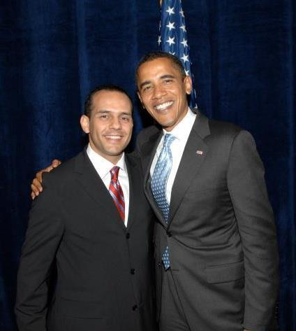 Juan Verde posing with President Barack Obama.